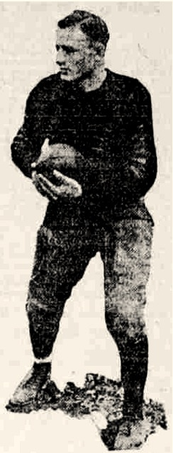 The original image description: One of the best ends in the Western conference is Gus Tebell of the Wisconsin Badgers. Mighty few gains are made around Tebell's end. Wisconsin is banking trongly on him to play a prominent role in the coming games. Teebell [sic] is fast and a sure tackler.